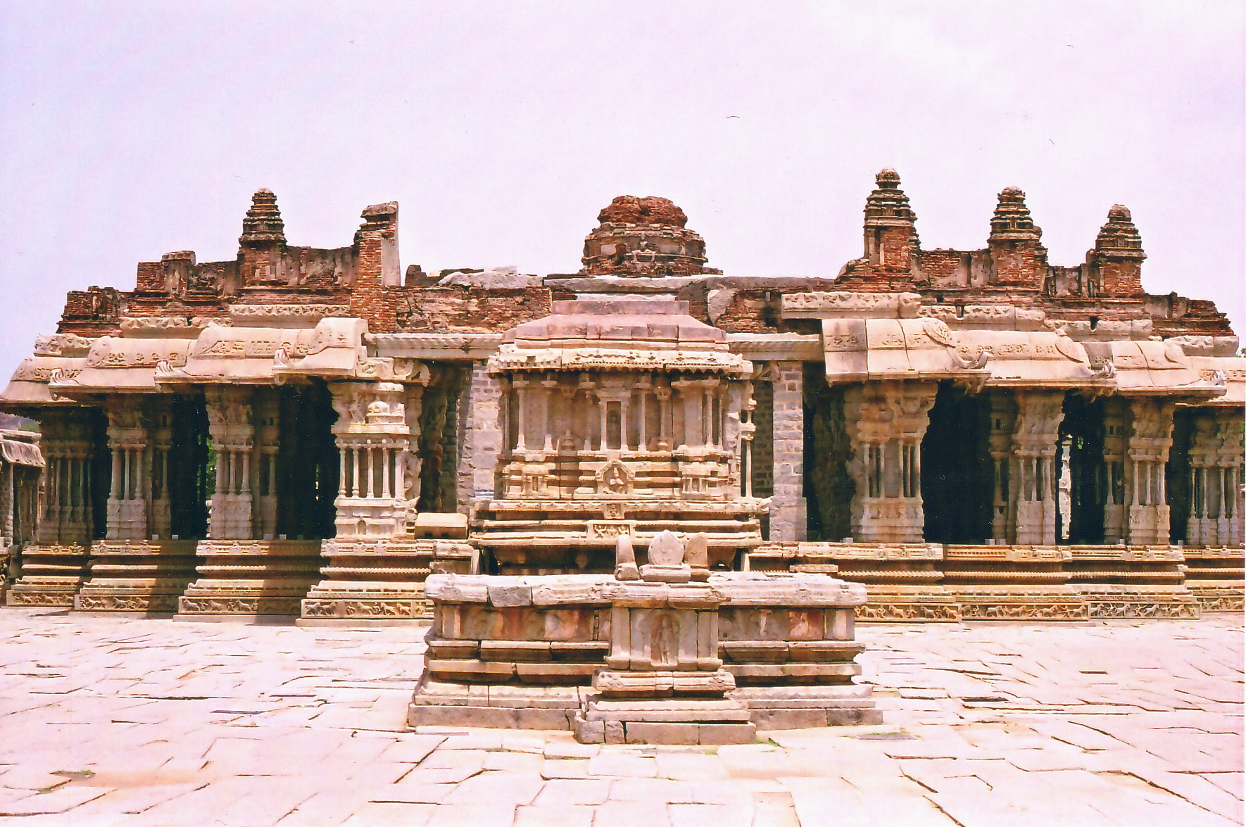 Photograph of Vitthala temple, in Hampi, Karnataka state